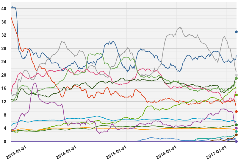 The seat projections in the graph are continuous from September 2012 (the last general election) up to the current date. Each colored line specifies a political party; numbers on the y-axis represent numbers of seats. These seat estimates are based off of data from Peilingwijzer, which is not strictly a polling average but a model using polls conducted by I&O Research, Ipsos, TNS NIPO, LISS panel, Peil, and De Stemming to calculate the trajectory of party support. VVD PvdA PVV SP CDA D66 CU GL SGP PvdD 50+ VNL DENK FvD PPNL